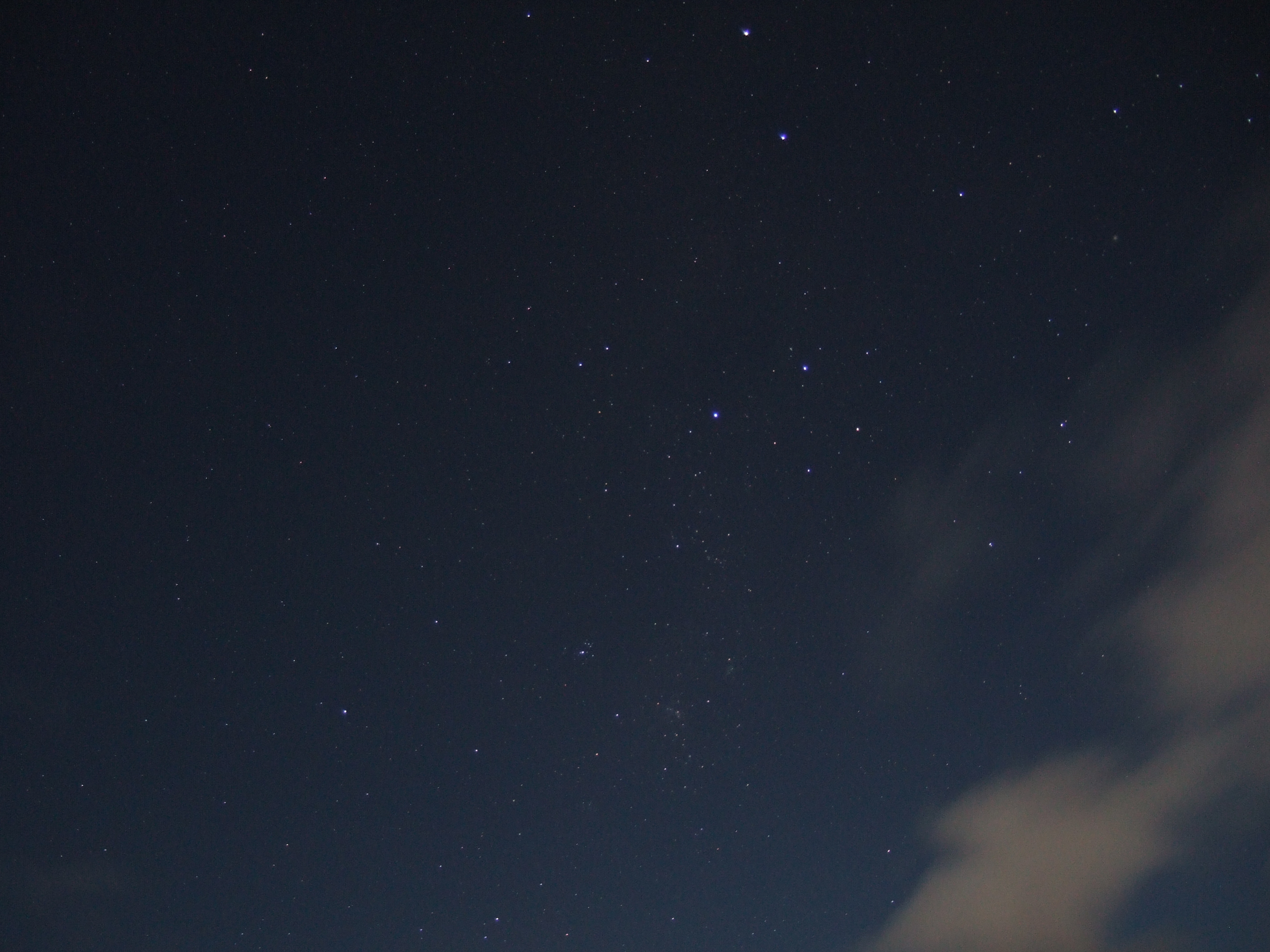 Photo of Crux